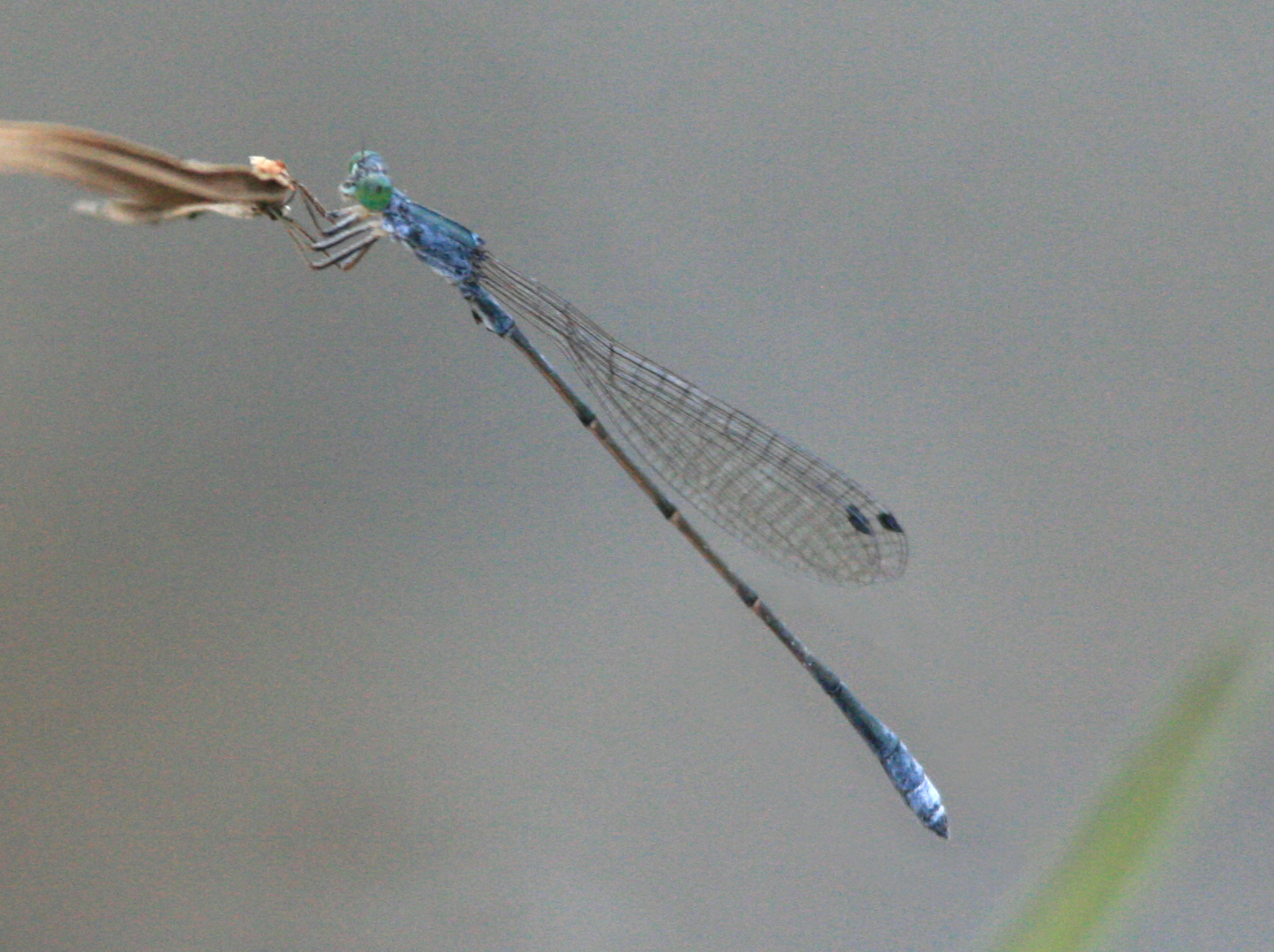 A male northern wiretail (Rhadinosticta banksi) in Queensland, Australia. The length of this specimen is 34mm. A similar species is the powdered wiretail (Rhadinosticta simplex)